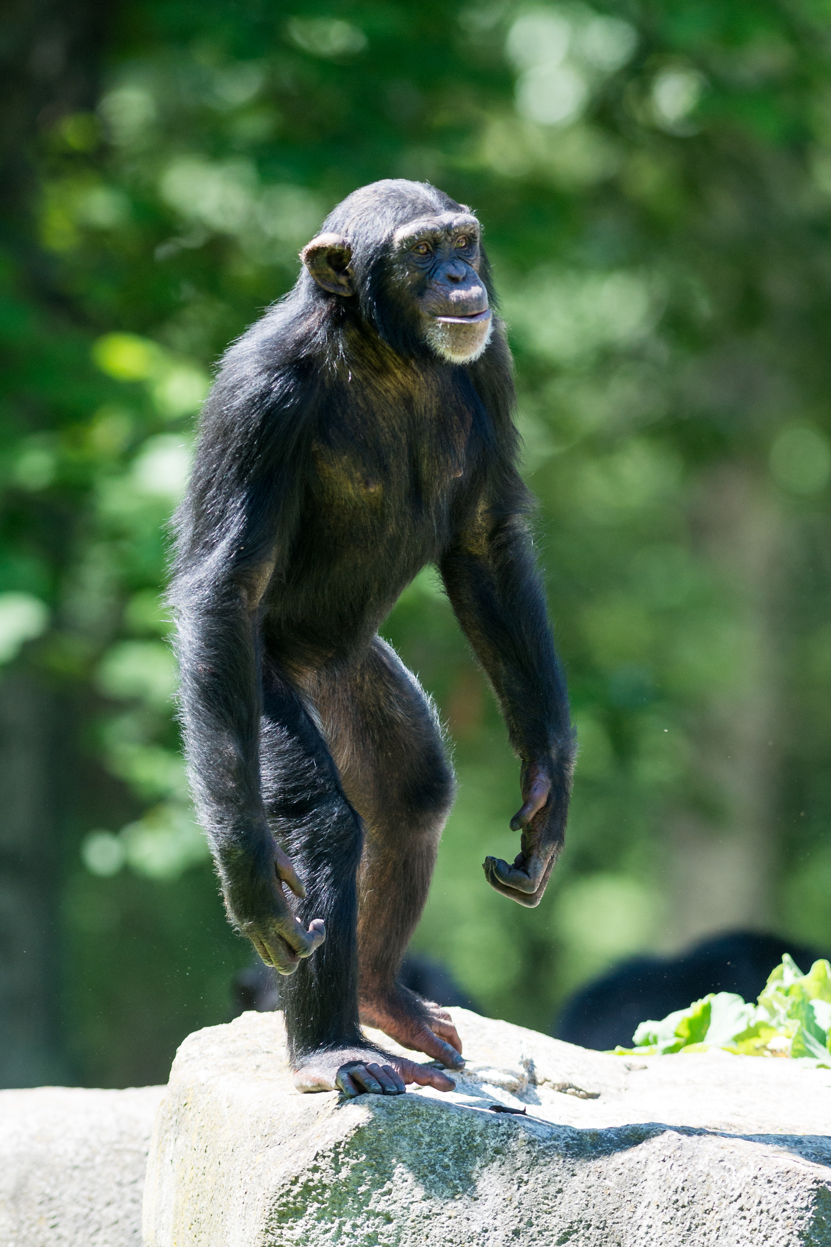 Young Chimp on Two Legs